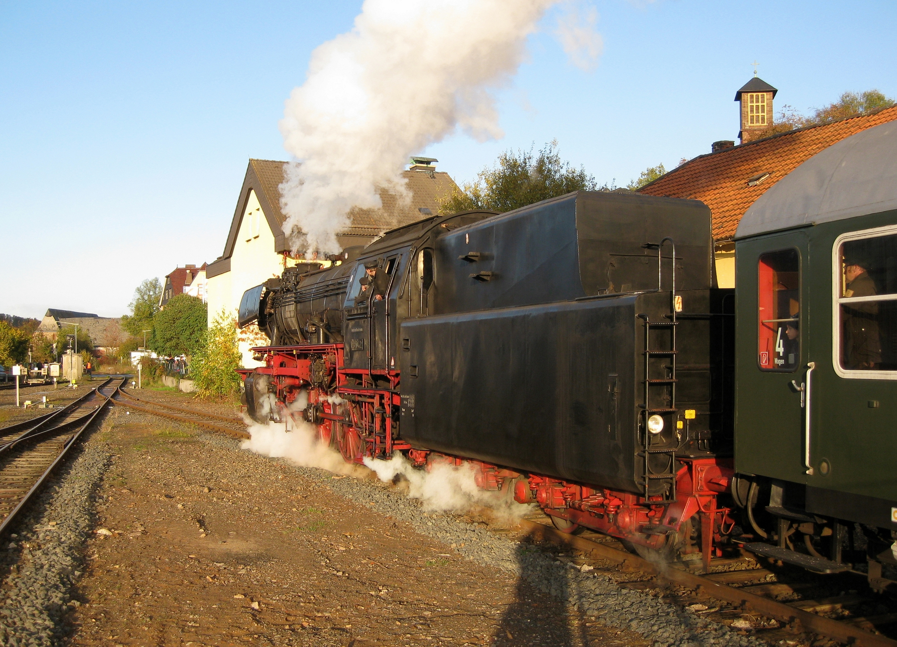 German steam locomotive 23 042 (build in 1954) leaves the train station in Frankenberg/Eder, hessia, germany.